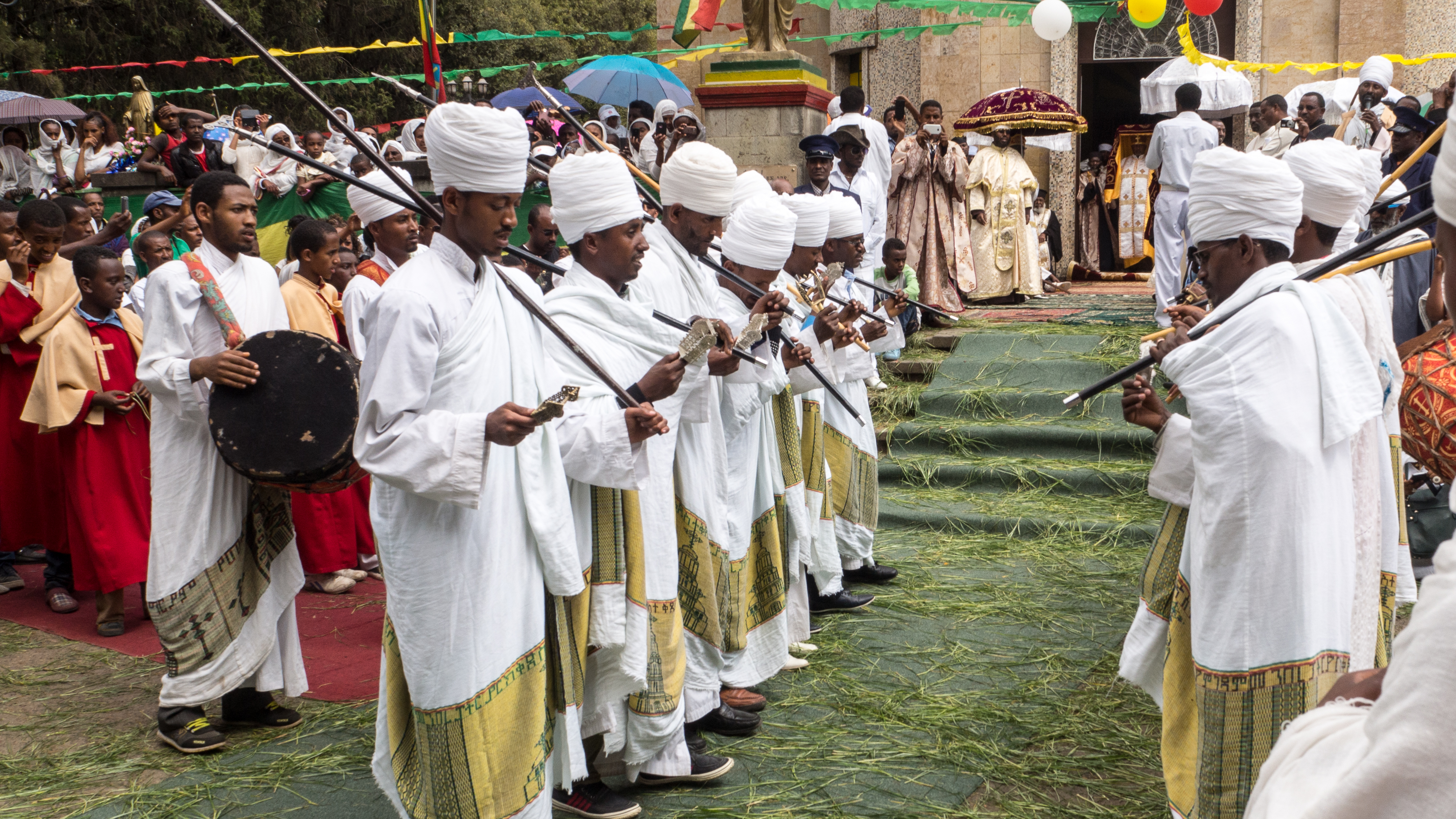 Orthodox priests dancing in front of Saint Mary church for 2015 Timkat in Addis Ababa, Ethiopia